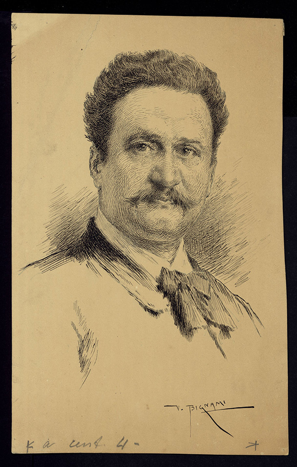 Portrait of Giuseppe Buonamici, musicologist (1846-1914), before 1929.